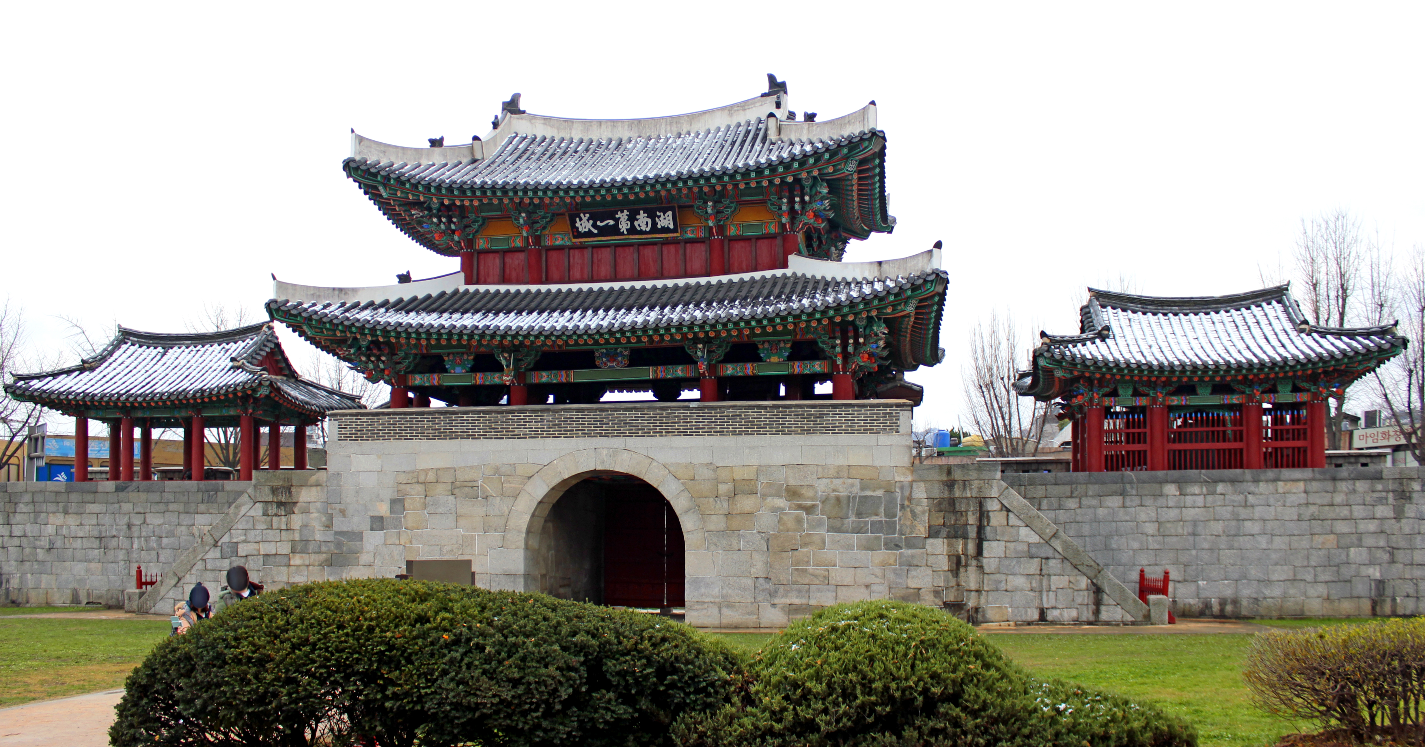 Pungnammun